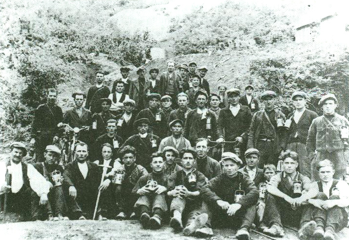 Miner strike in Tušnica 1940.